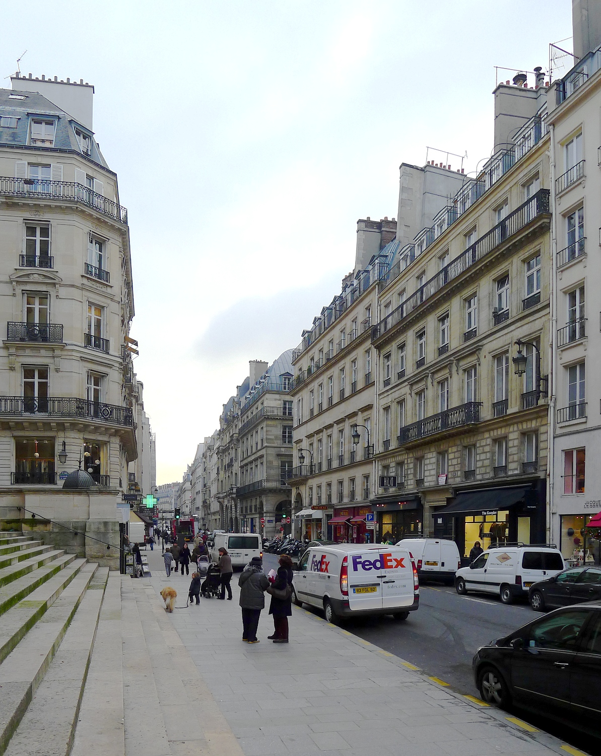 Saint-Honoré street - Paris